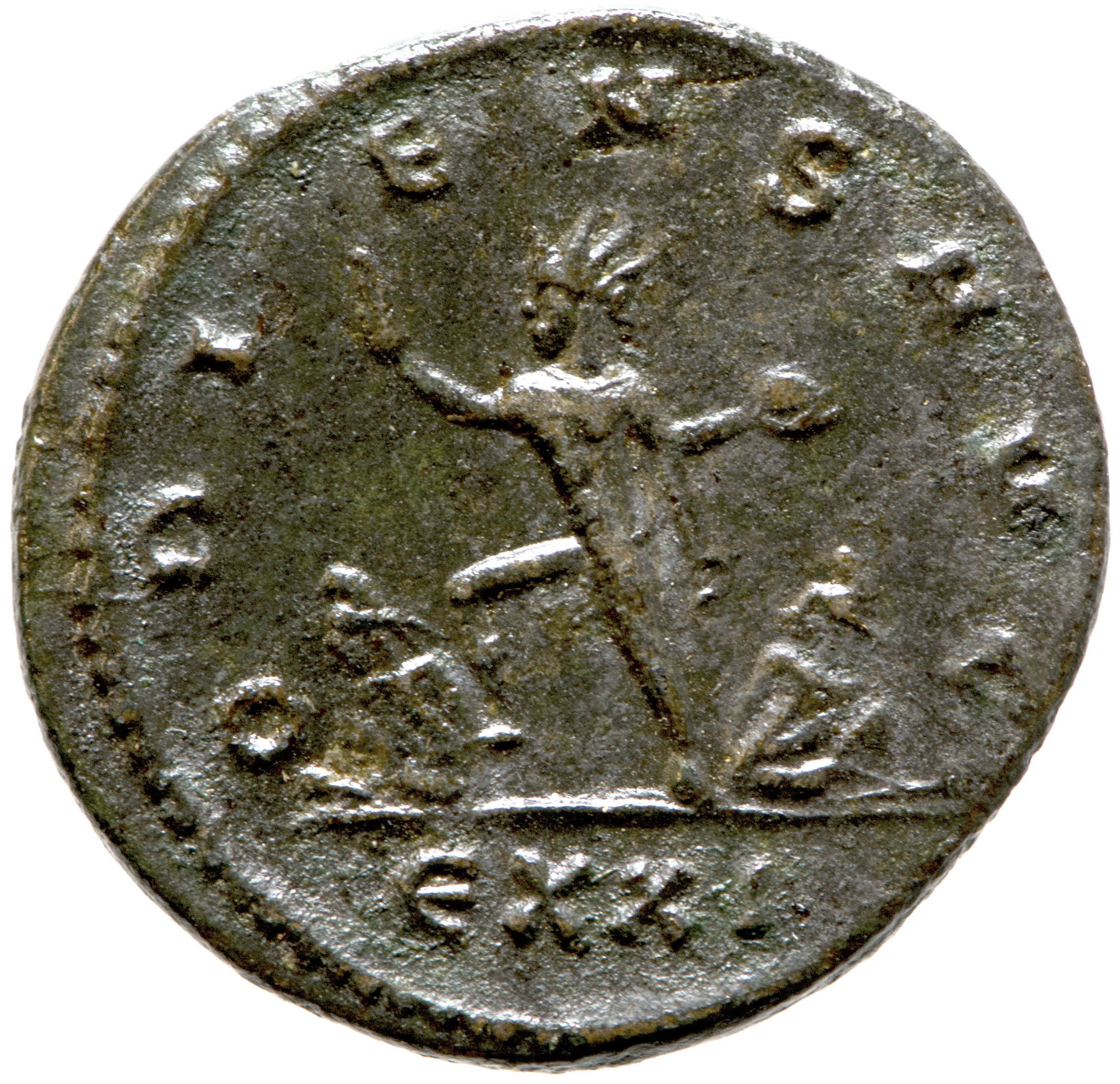 Reverse (back) of a Radiate of w: Aurelian. Sol advancing left between captives and holding globe in left hand.